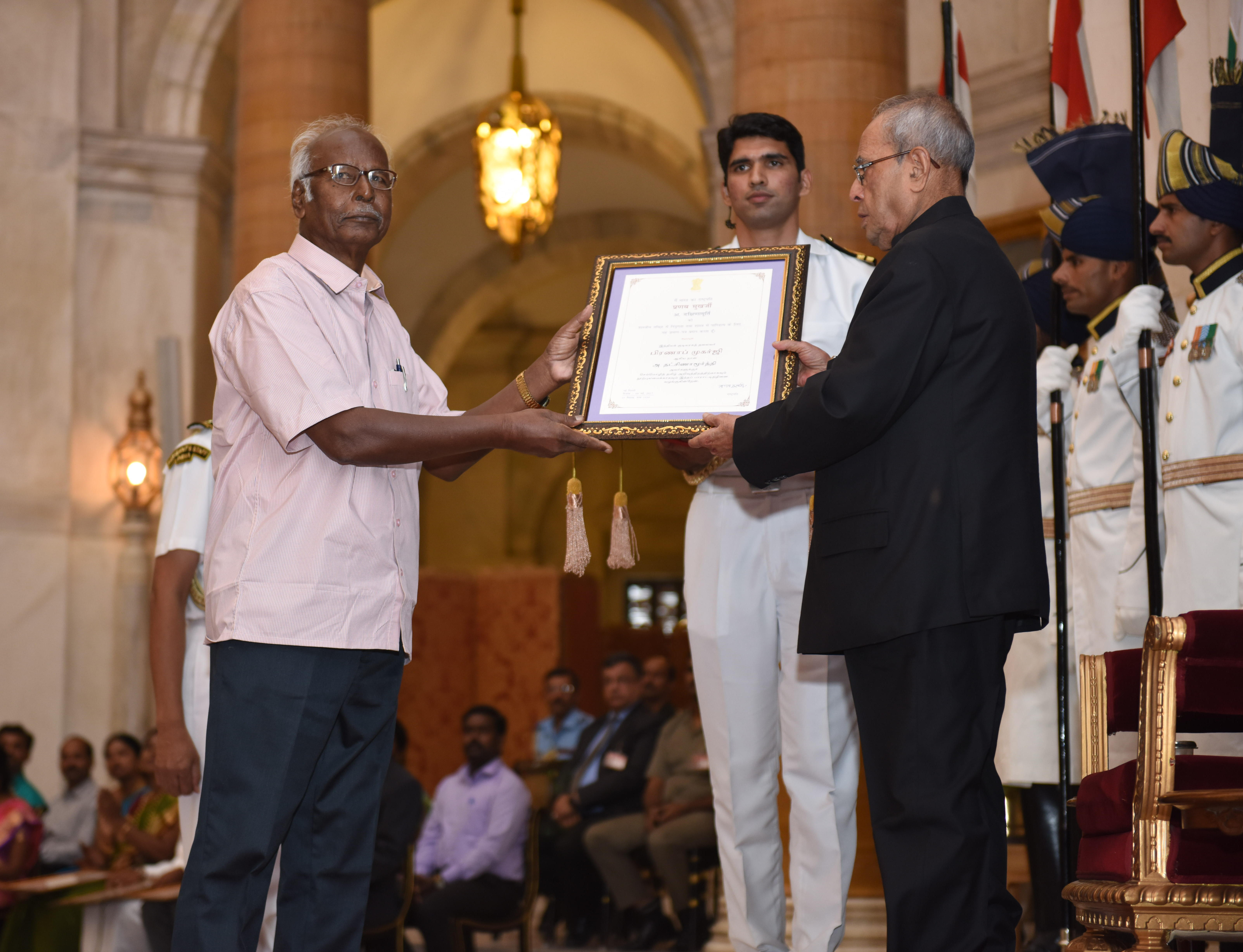 Prof. A. Dakshinamurthy receiving the Indian Presidential Award for Lifetime Achievement in Classical Tamil, The Tolkappiyar Award (2015) from President Shri. Pranab Mukherjee on the 9th of May 2017 at the Rashtrapati Bhavan, New Delhi.